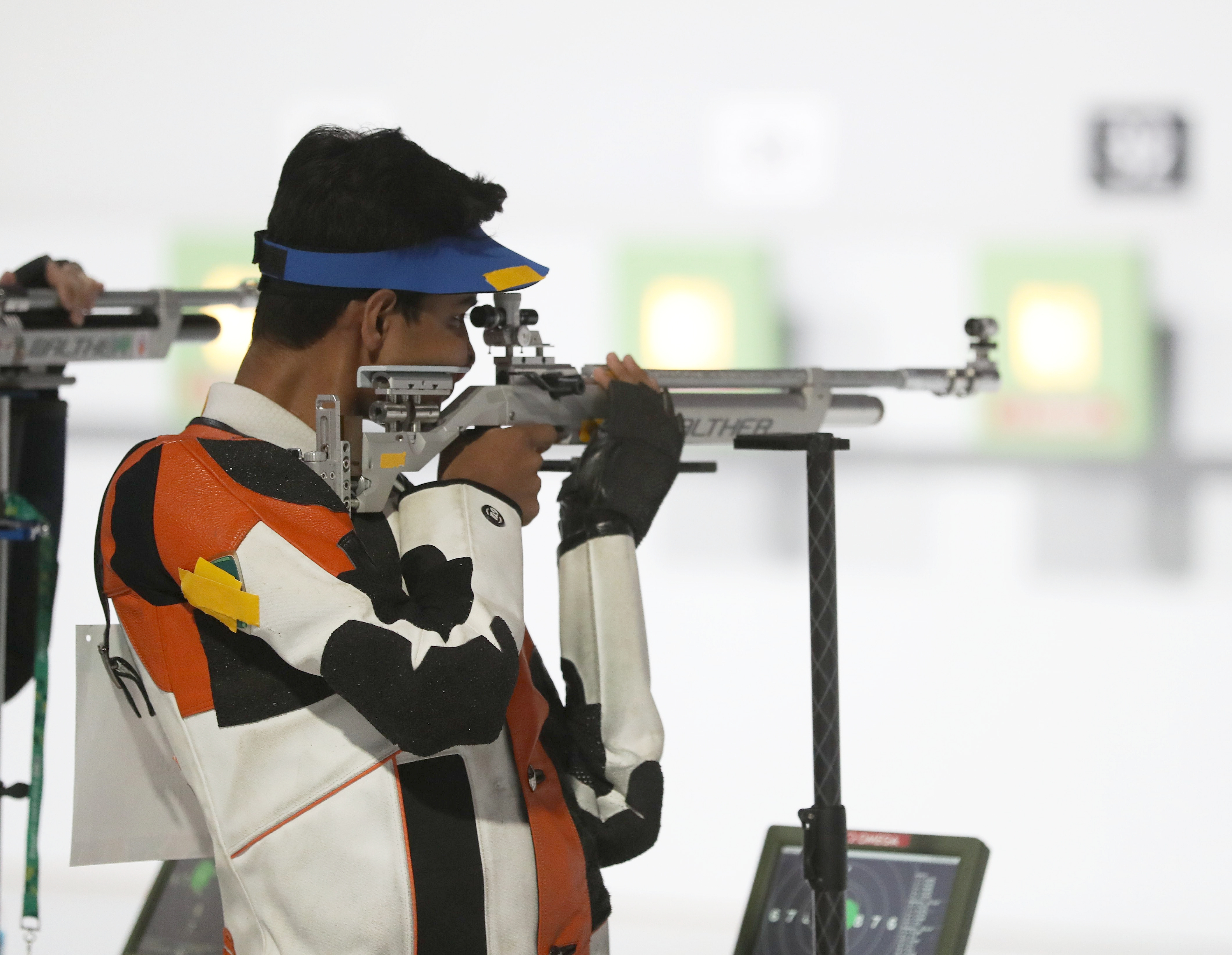 Shooting at the 2018 Summer Youth Olympics in Buenos Aires on 7 October 2018. Boys' 10 metre air rifle.